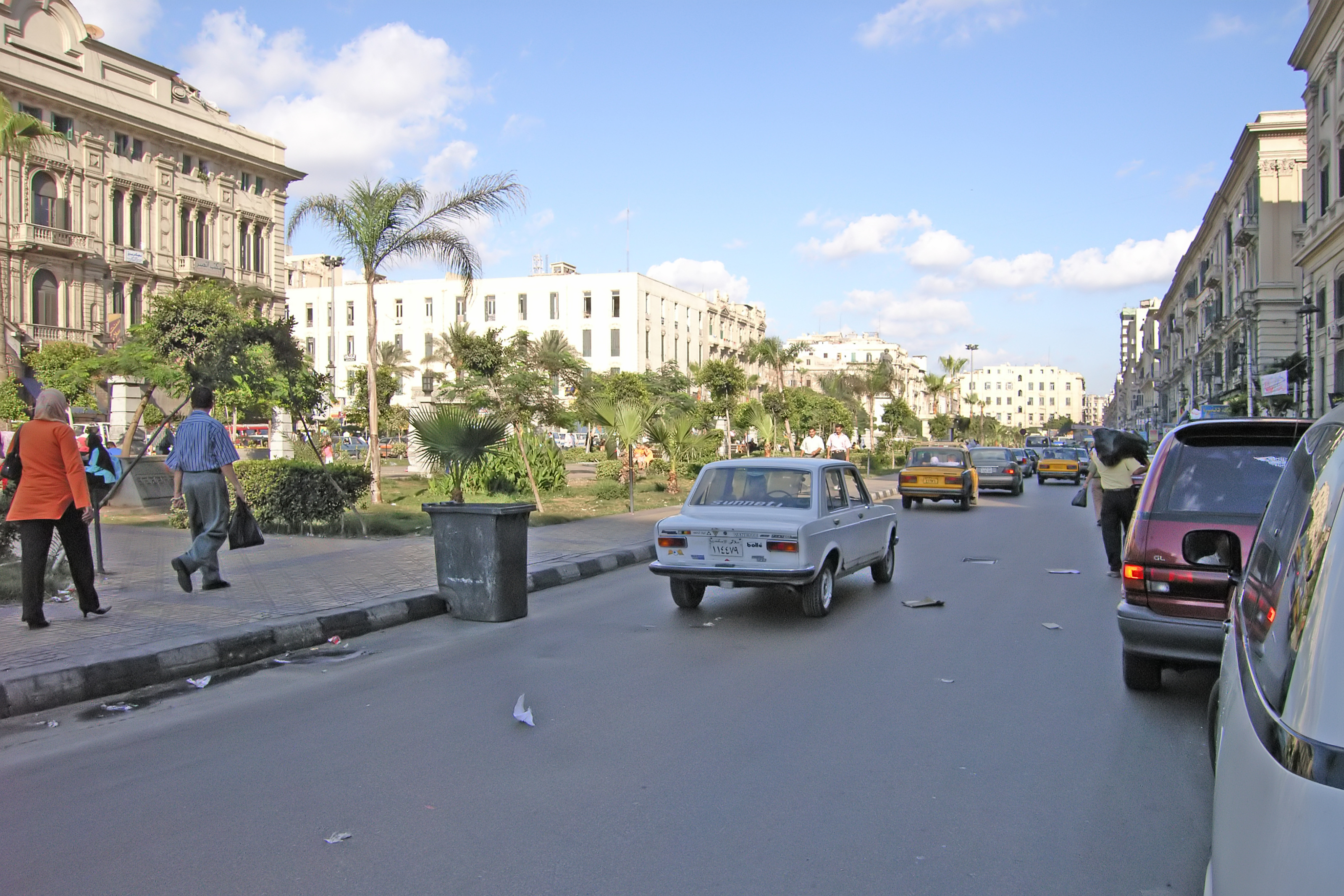 Midan al-Manschīya, Alexandria, Egypt